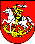 Former coat of arms of Rittersbach (Elztal (Odenwald))